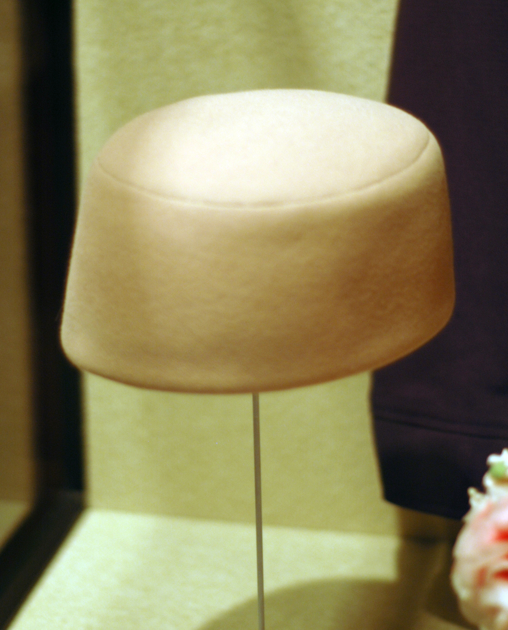 Pillbox hat. Photo taken at the Harry S. Truman Presidential Museum and Library.